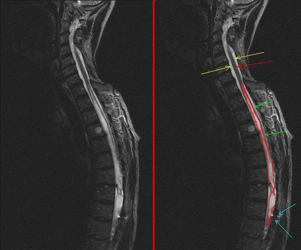 MRI image of the sagital thoracic spine with syringomyelia